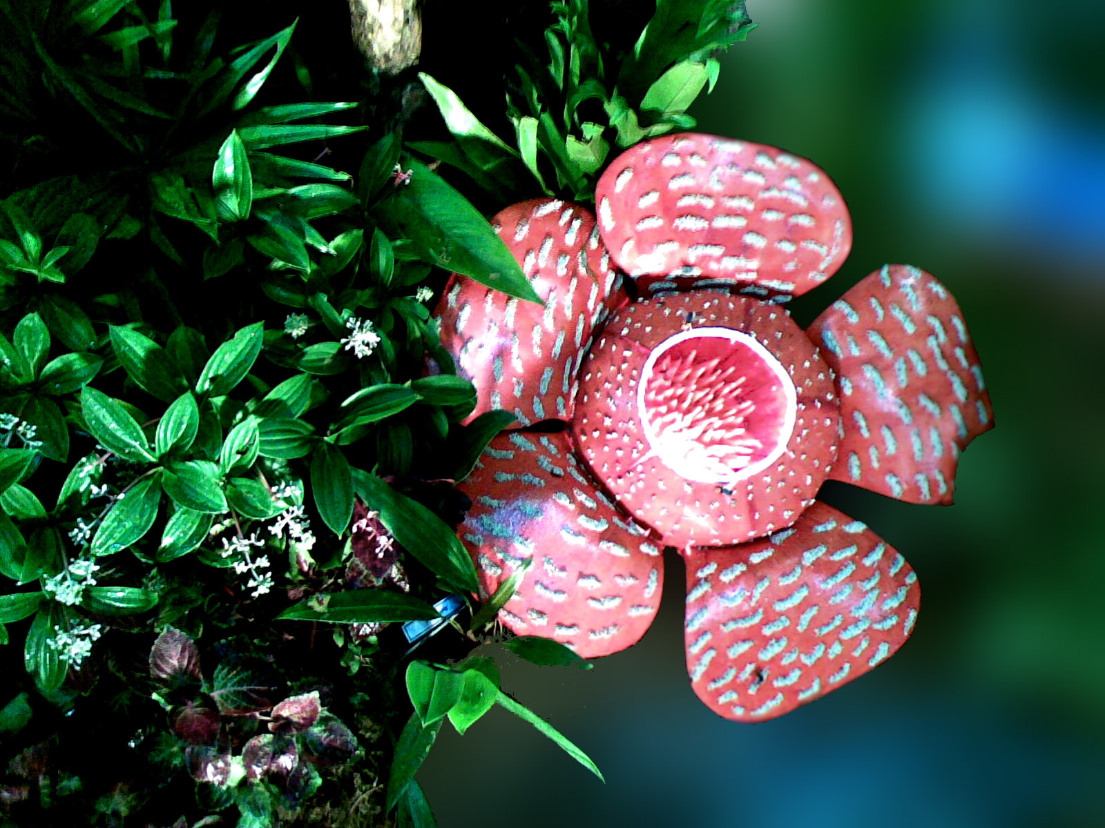 The Rafflesia body consists of thread like growths on the tissues of a Tetrastigma vine root, on which it is parasitic. The plant produces no leaves, stems or roots and does not contain chlorophyll. The Rafflesia can be seen only when it is ready to reproduce, when the parasitic growths on the vine form a lump that develop into a structure somewhat resembling a cabbage. This cabbage-like bud bursts through the host?s bark, and after about 9 months will open to reveal the massive 5-petaled flower, with stamens and pistils, which develops into a fruit with seeds. The flowers, which sit directly on the forest floor, are each either male or female (female flowers are particularly rare), can measure more than a meter across and weigh 10 kilograms. Most flowers in the genus give off and smell of rotting flesh, hence its local name of ?corpse flower.? This smell attracts flies, which pollinate the plant. The center of the flowers contain numerous spikes whose function are unknown, and it also holds several gallons of nectar. The fruit produced is round and about 15 cm in diameter, with thousands of tiny seeds.